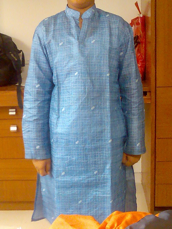 A beautiful Blue Khadi (Spun Cotton) Kurta worn by my cousin Siddhesh.